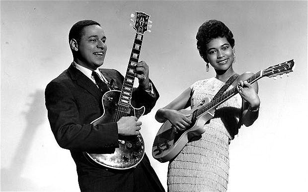 Photo of Mickey Baker and Sylvia Vanderpool Robinson as the duo Mickey and Sylvia in 1956.